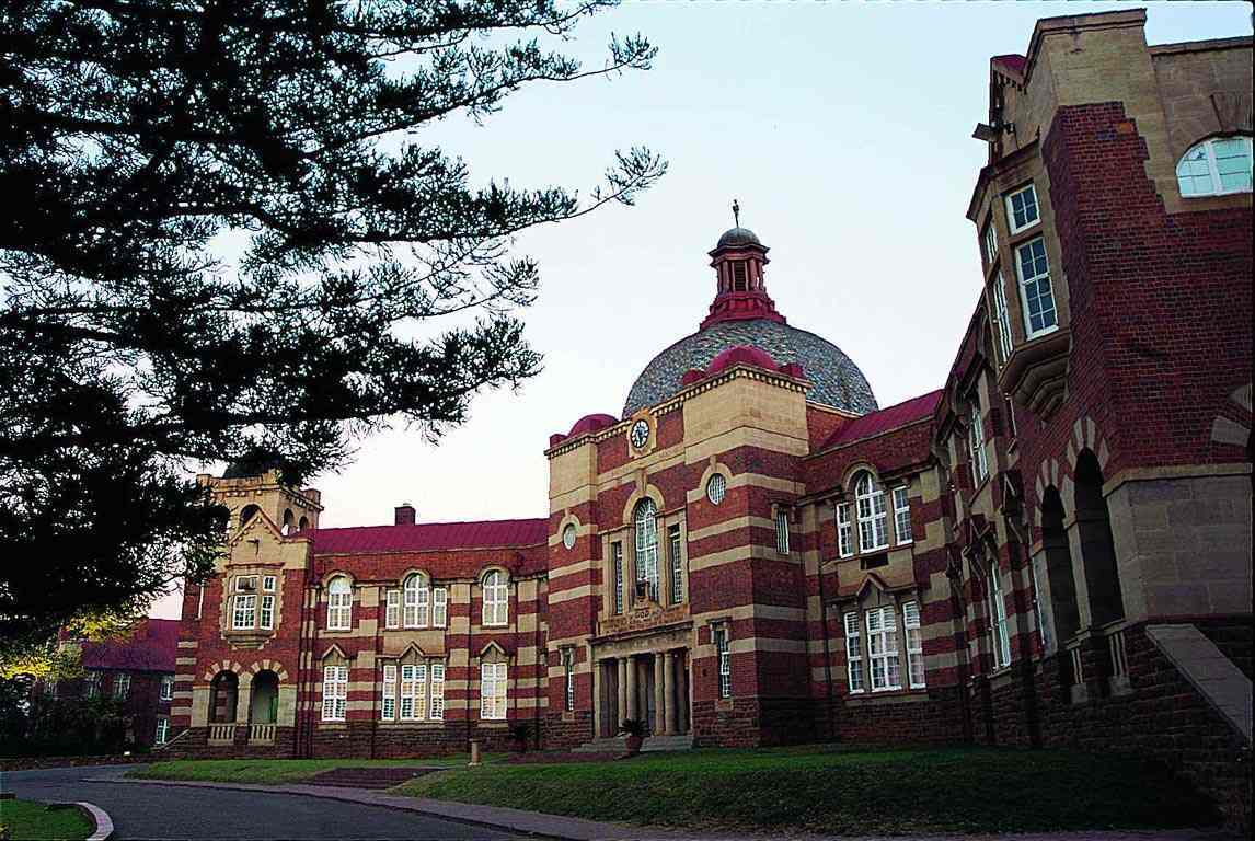 Main building of Pretoria Boys High School in Elandspoort 357-Jr, Pretoria